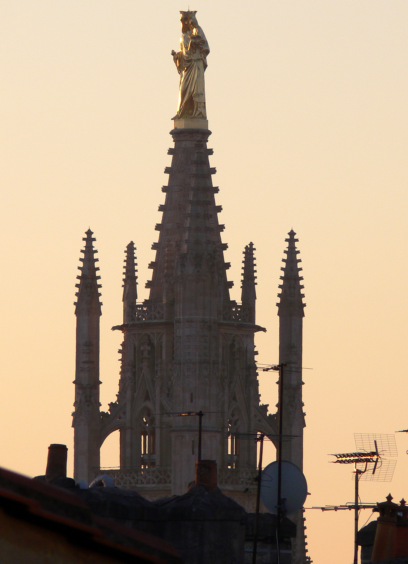 Golden statue on the Pey-Berland tower, near towers of Saint-André Cathedral in Bordeaux (southwest of France)